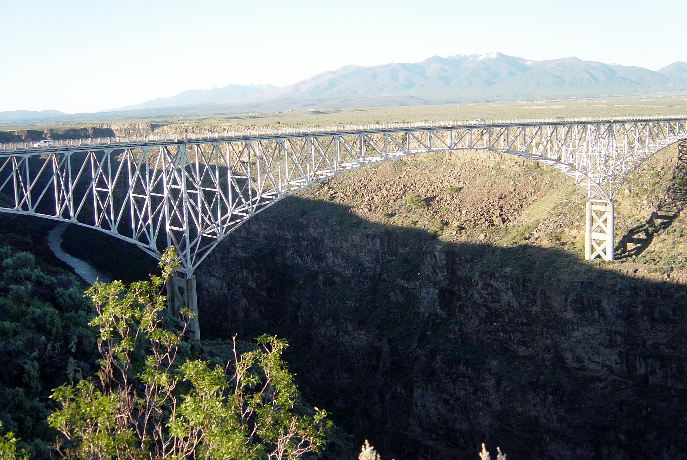 Rio Grande Gorge Bridge, just oustide Taos, New Mexico